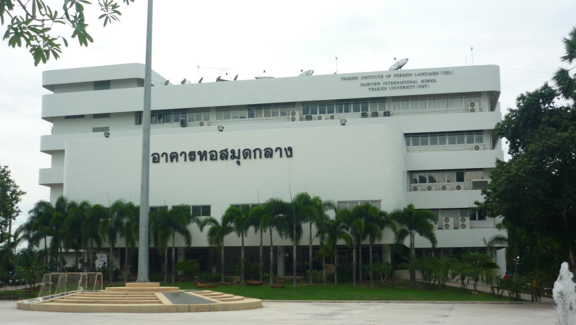 อาคารหอสมุด